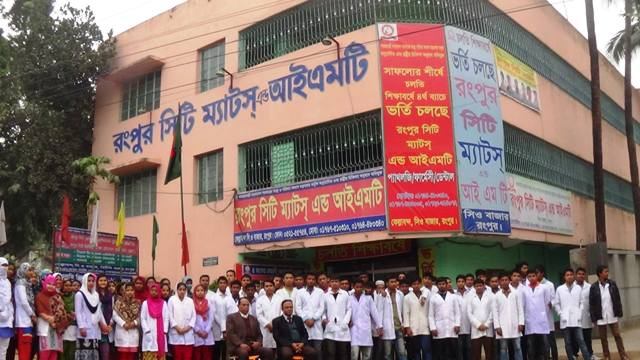 Rrangpur City MATS & IHT/IMT, Rangpur is a Diploma in Medical Technology Institute in Rangpur City. This institute run under The State Medical Faculty(SMF)